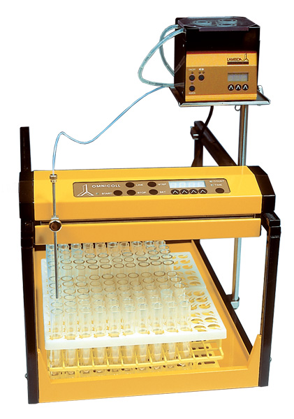 Fraction collector - sampler LAMBDA OMNICOLL